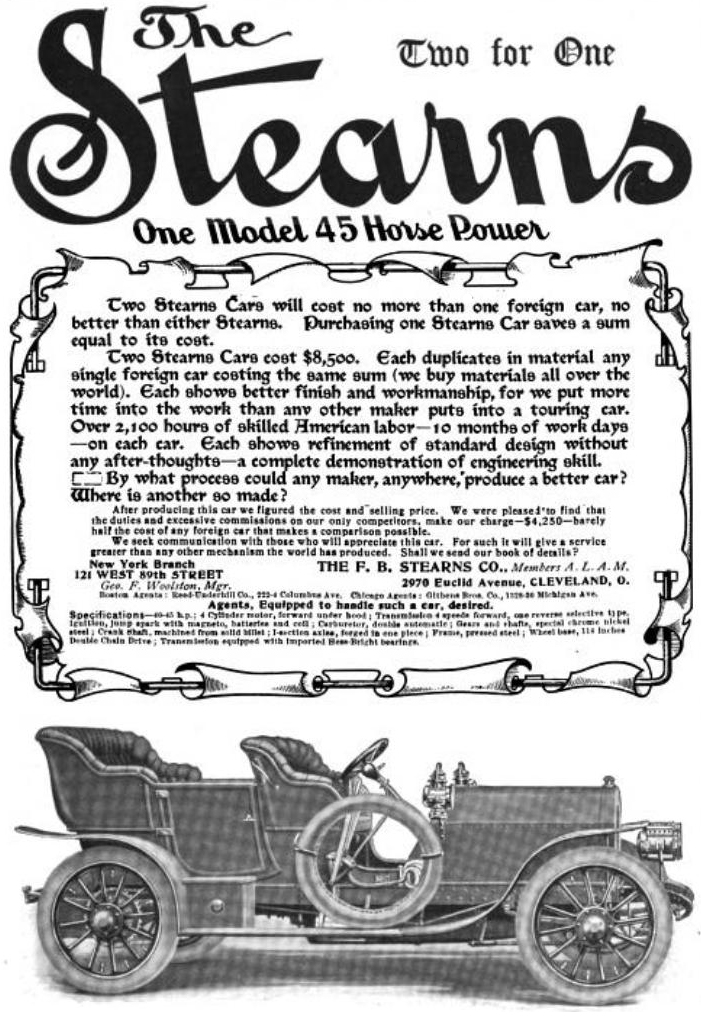 F. B. Stearns Company of Cleveland, Ohio - 1906